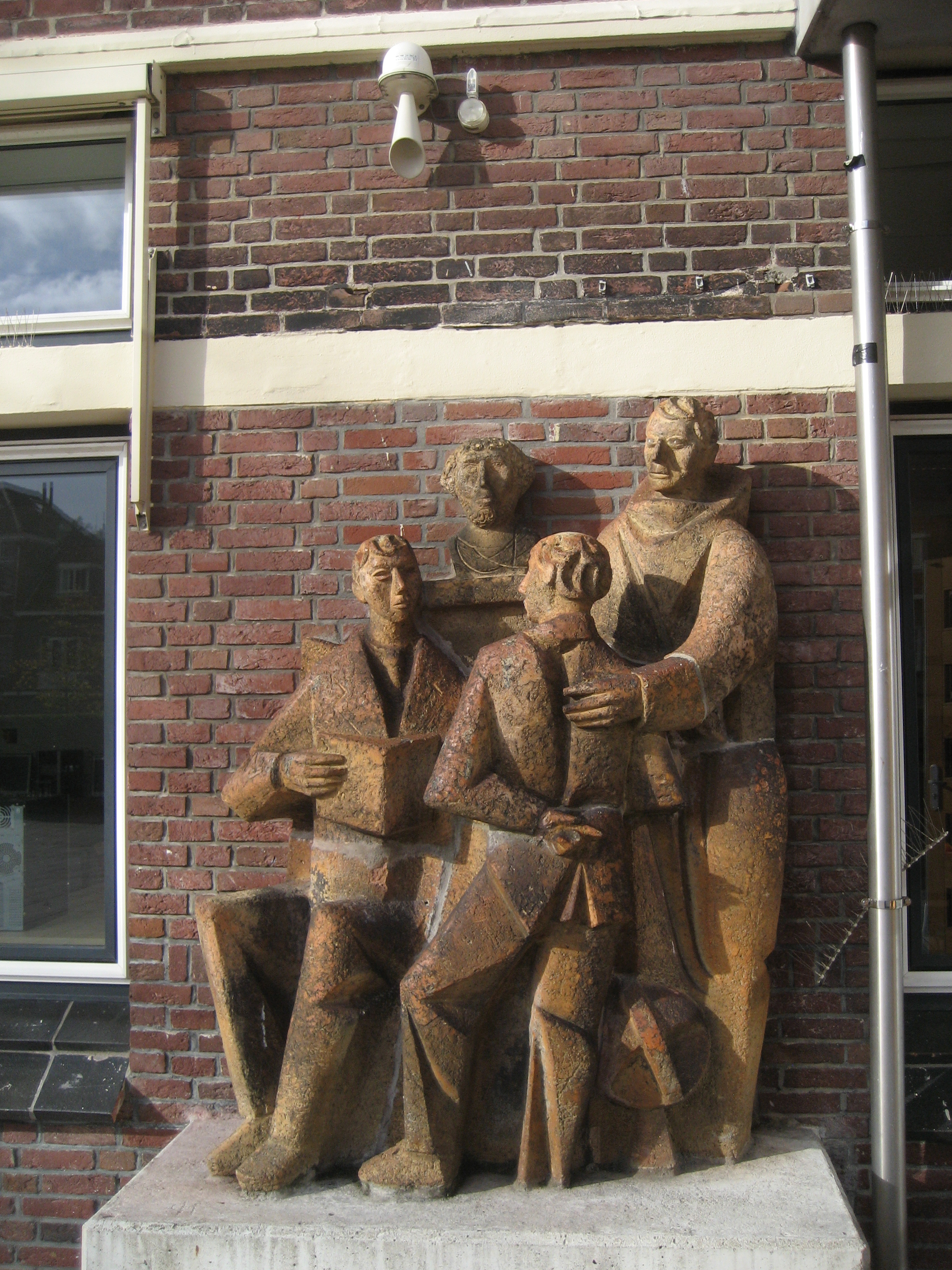 Statue at Bonaventura College, Mariënpoelstraat, Leiden (The Netherlands).